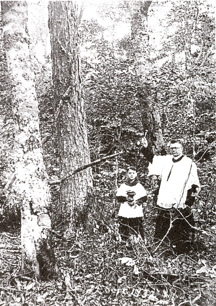 The foundation of Allardville, New Brunswick, by father Jean-Joseph-Auguste Allard on september 12, 1932.